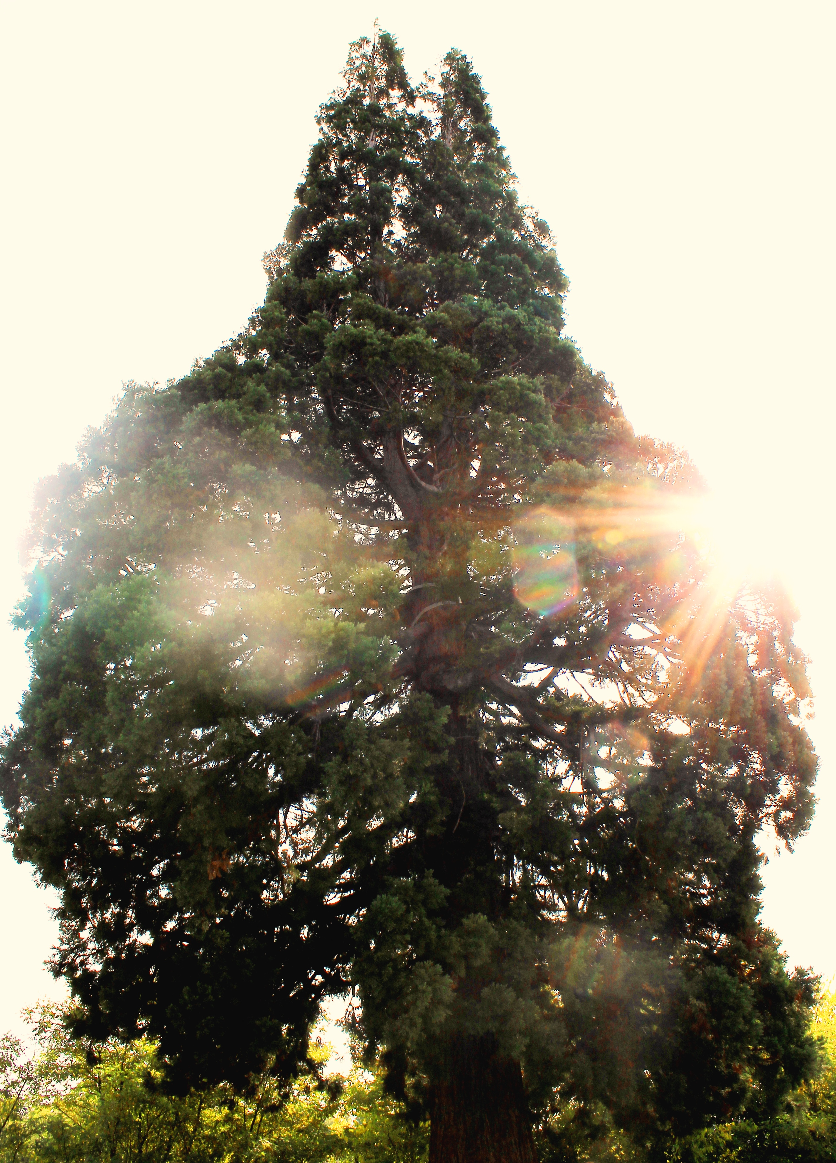 Mammoth tree in Balkány–Csiffytanya, Hungary